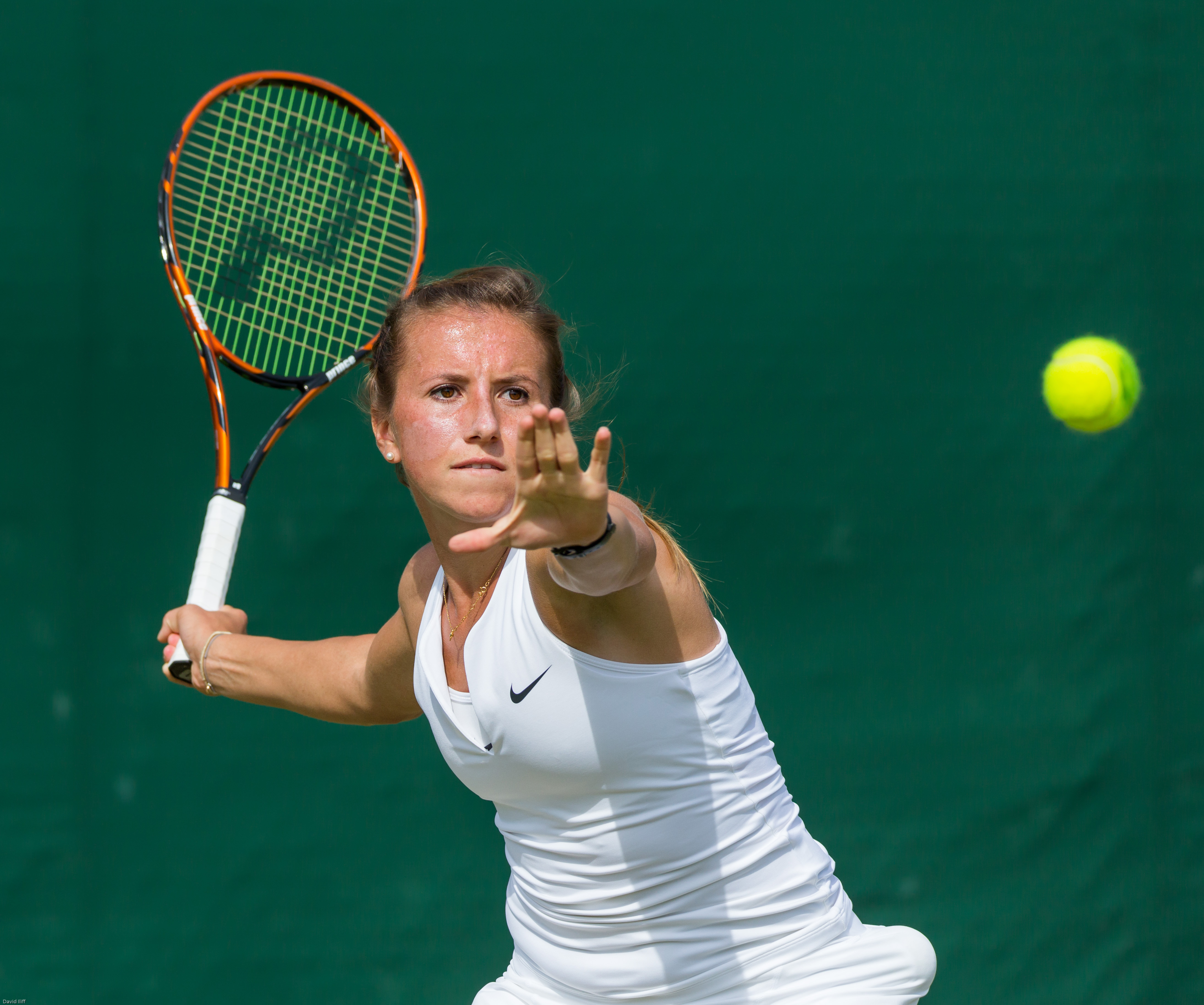 Annika Beck competing in the second round of the 2015 Wimbledon Qualifying Tournament at the Bank of England Sports Grounds in Roehampton, England. The winners of three rounds of competition qualify for the main draw of Wimbledon the following week.